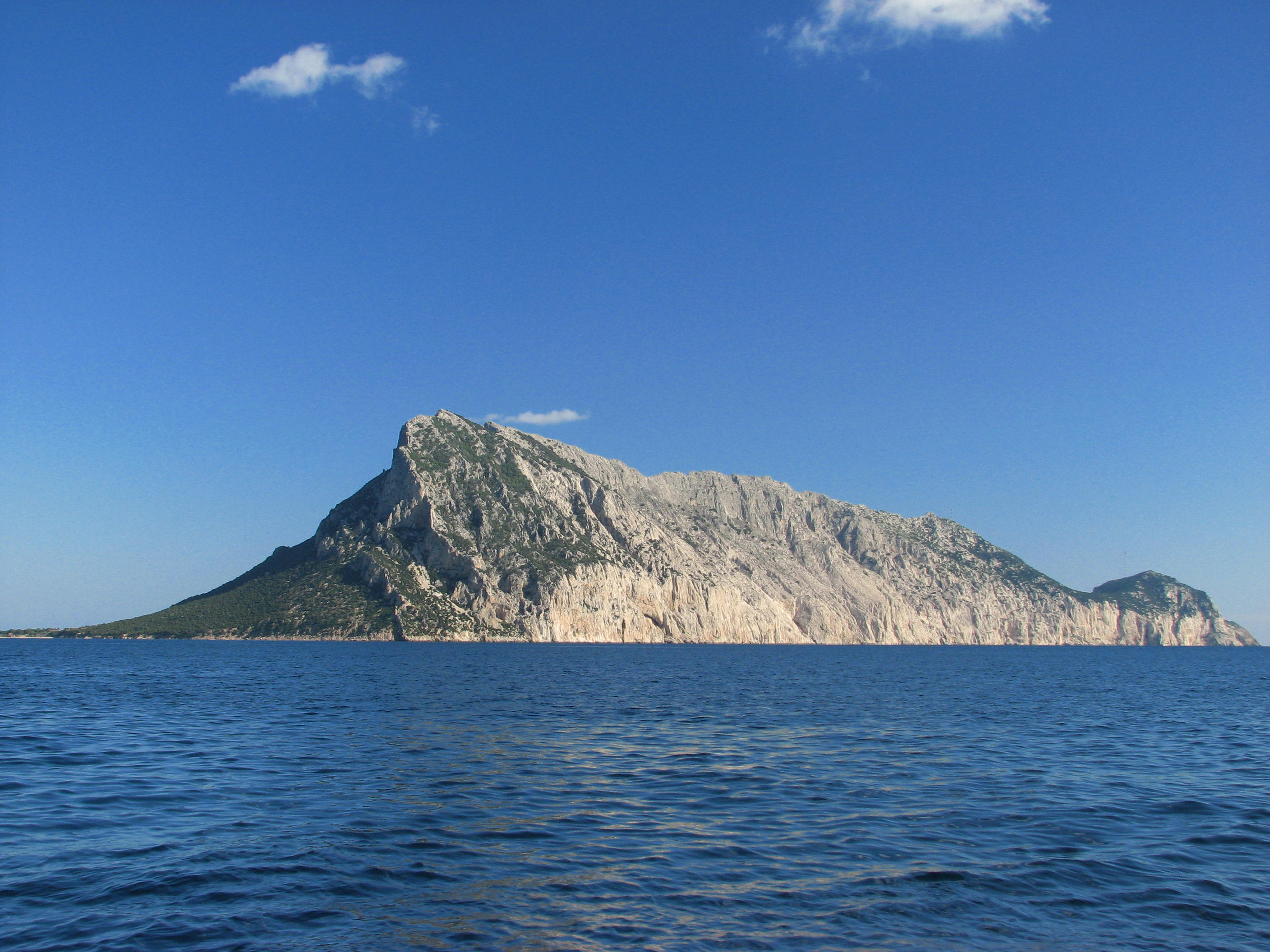 Island of Tavolara seen from South